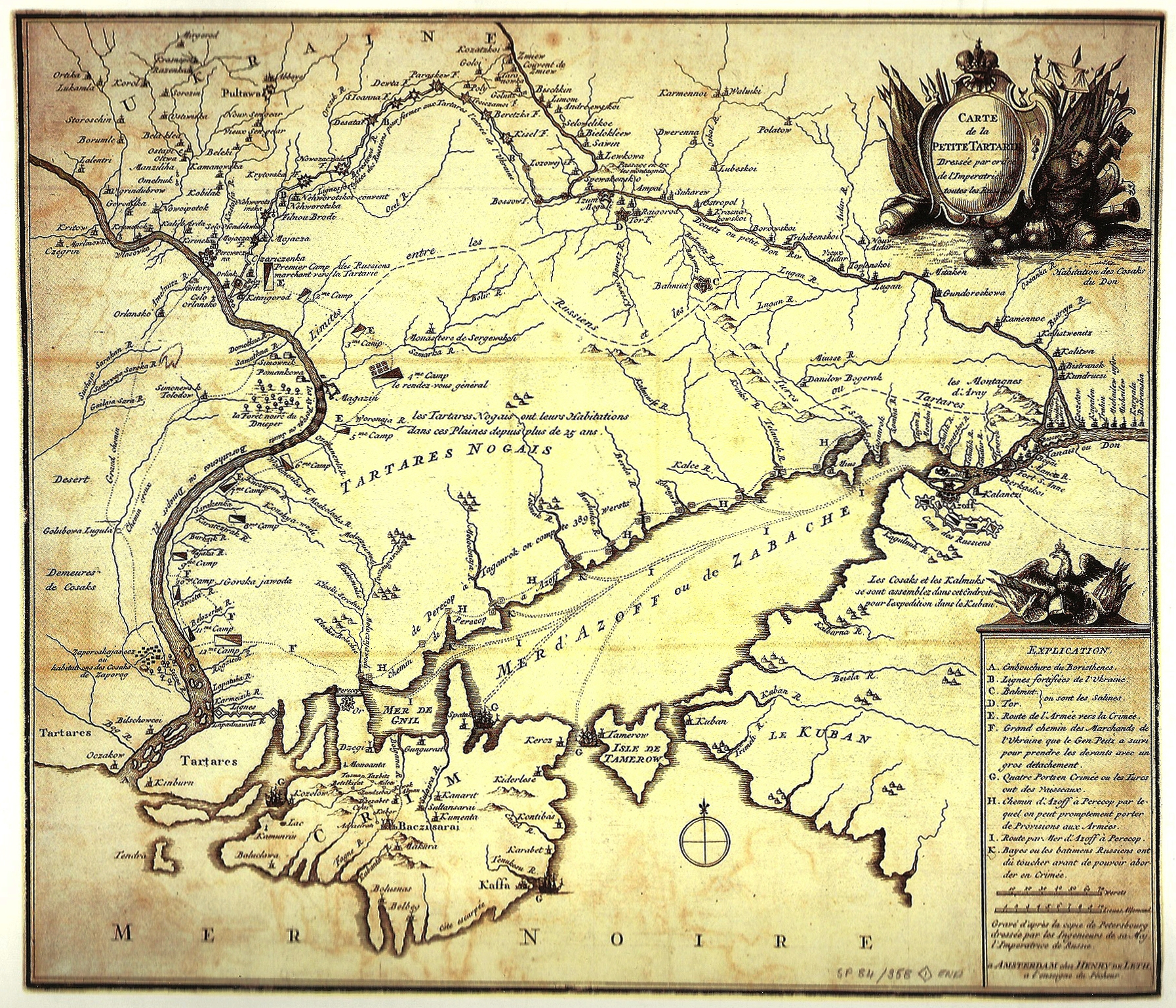 Russian campains of 1736 against the Tatarian Khanate of Crimea (Southern Ukraine)